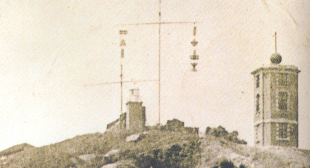 Time Balls on Blackhead Point, Hong Kong, taken at least before 1933